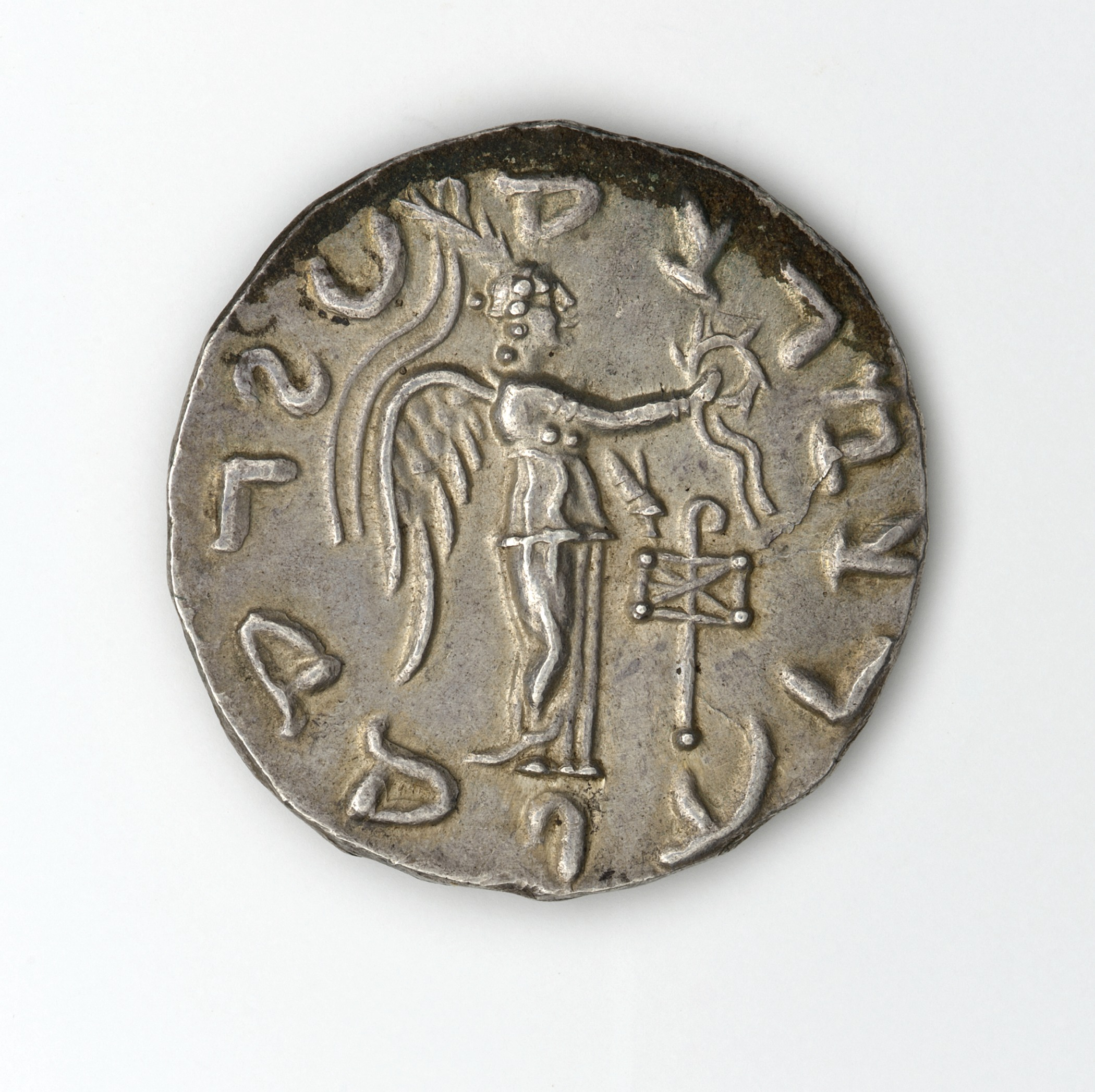 India, circa 75-57 B.C. Tools and Equipment; coins Silver Purchased with funds provided by Anna Bing Arnold and Justin Dart (M.84.110.7) South and Southeast Asian Art